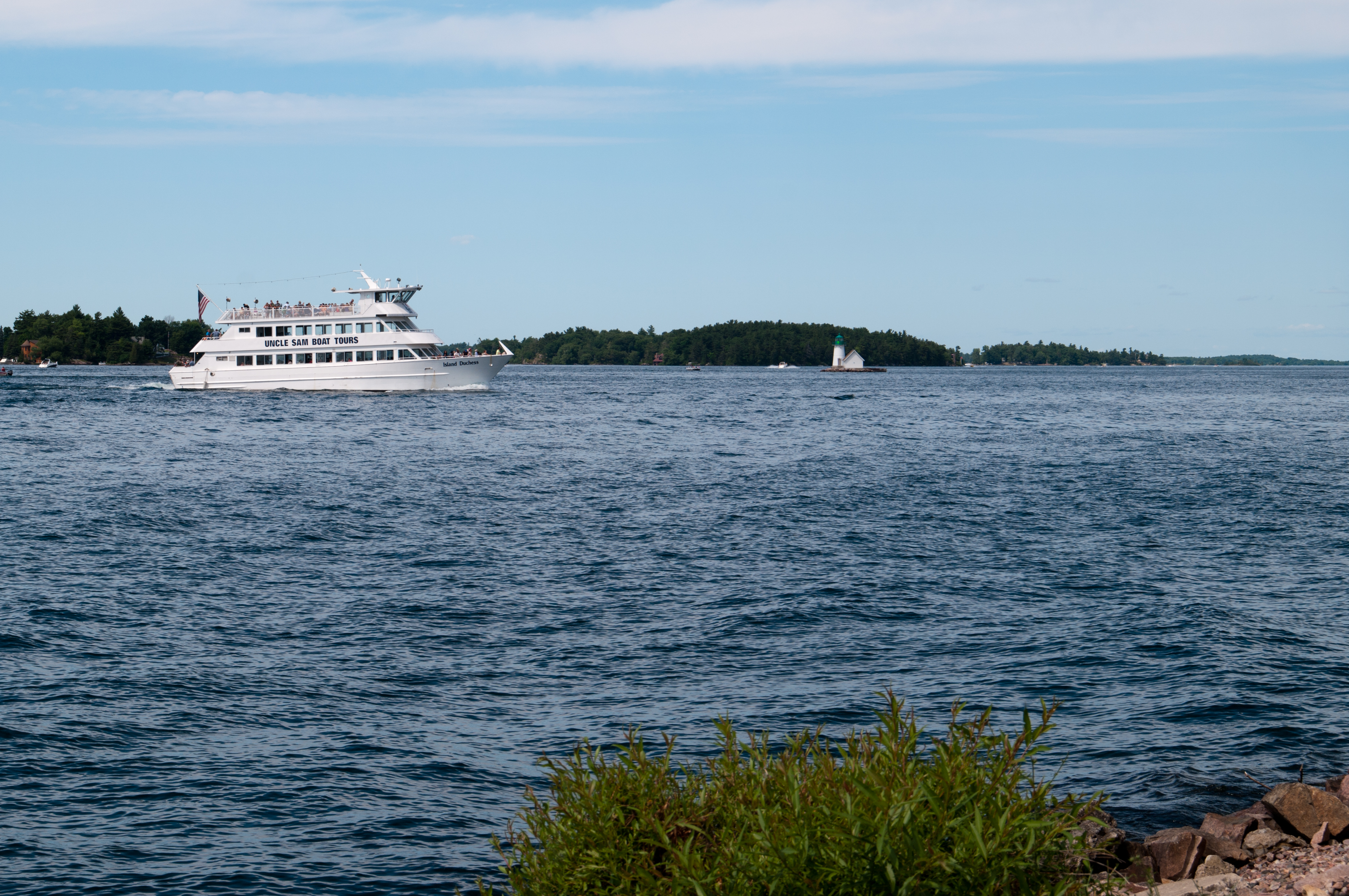 View across Saint Lawrence River from Alexandria Bay, NY. On the river the Island Duchess by Uncle Sam Boat tours, bringing visitors to Boldt Castle.